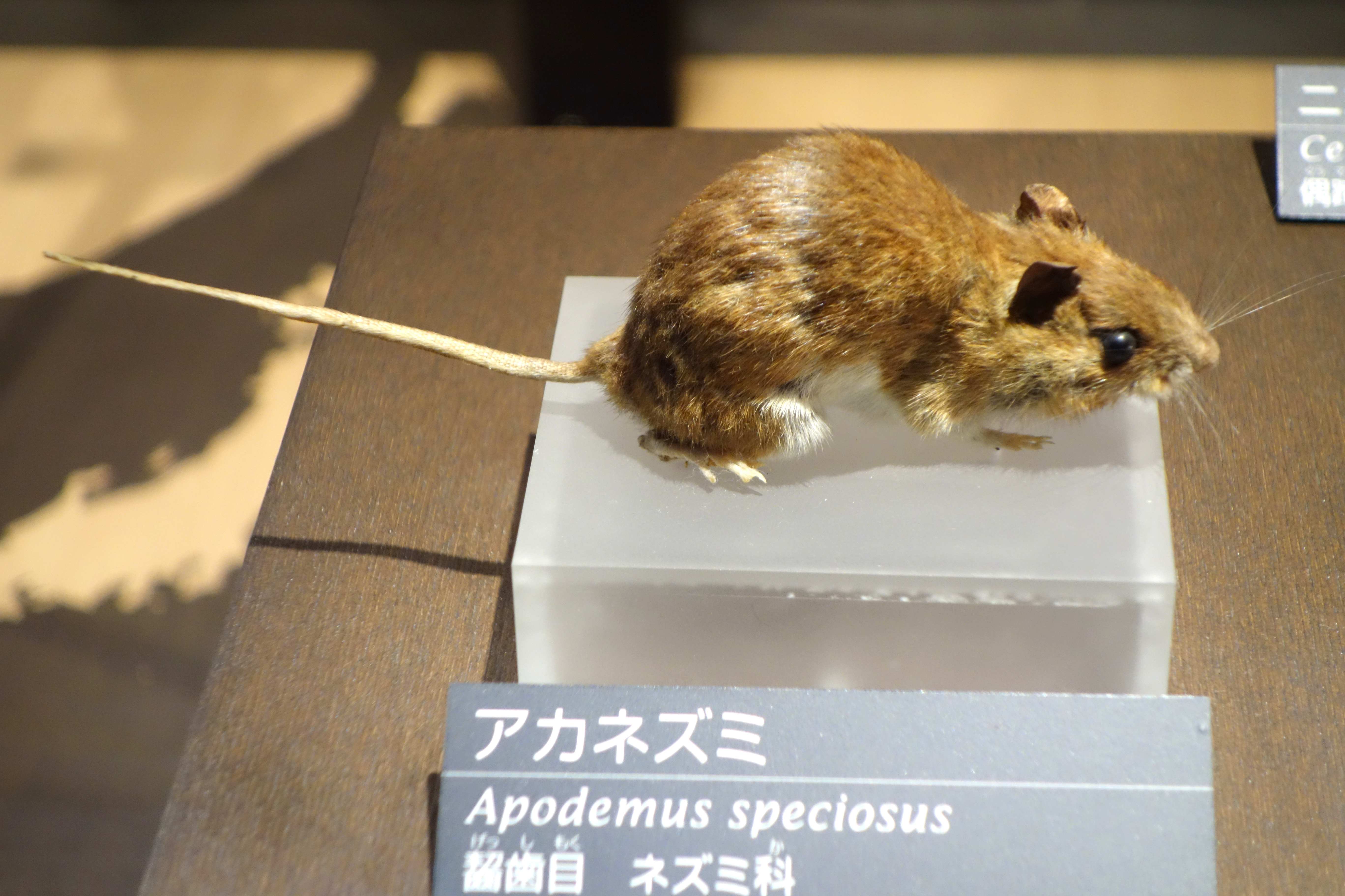 Exhibit in the National Museum of Nature and Science, Tokyo, Japan.